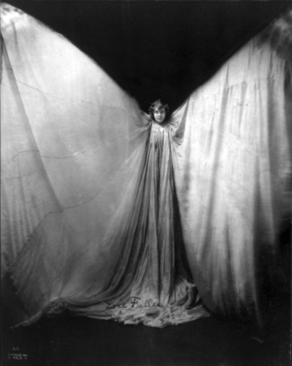 Loie Fuller standing, facing front; wearing large gown, with arms raised in shape of a butterfly.